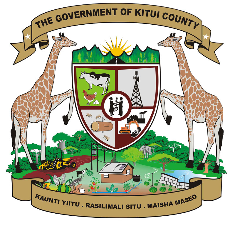 This is the Coat of Arms of Kitui County, one of the 47 counties of the republic of Kenya